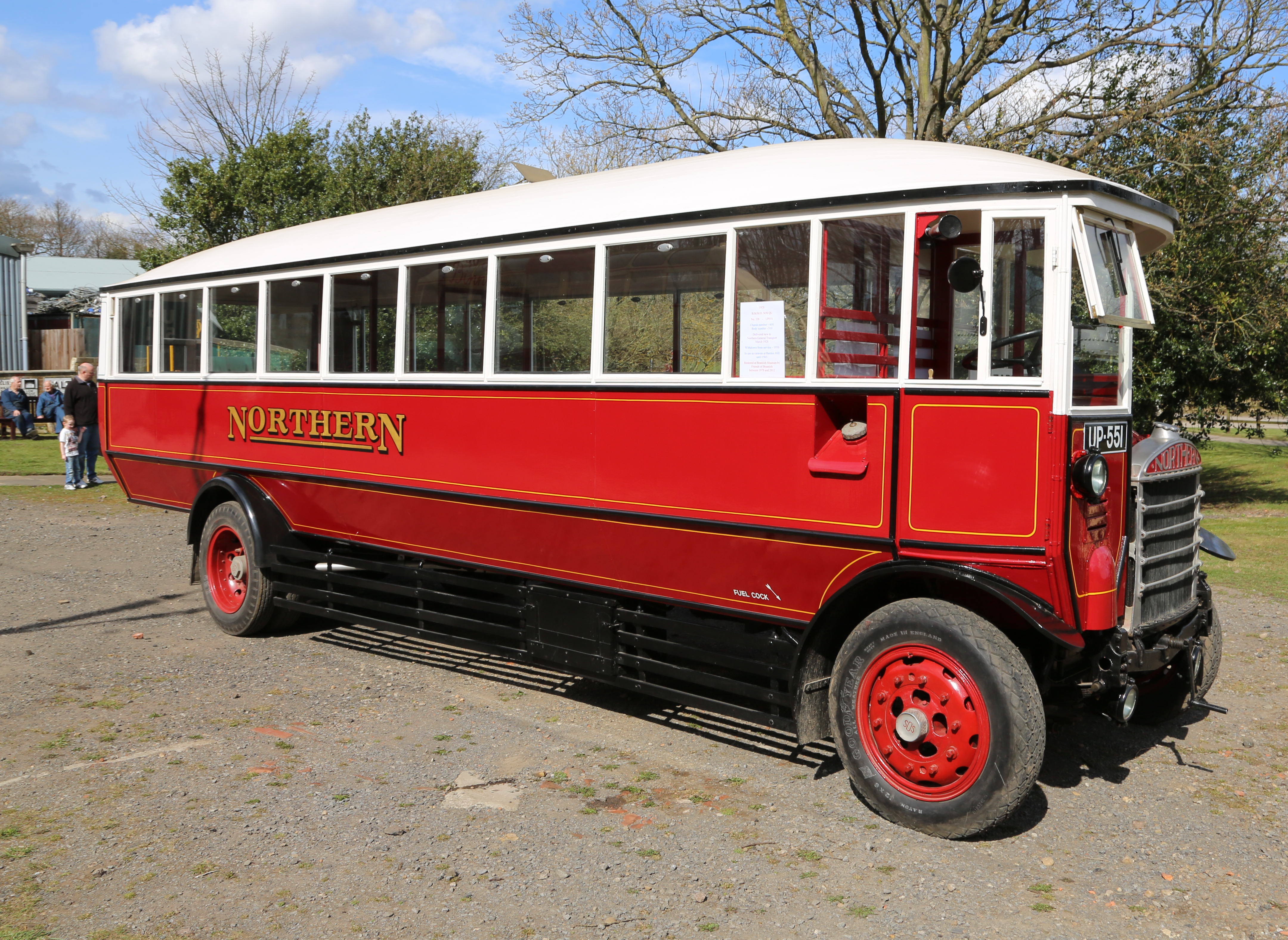 Preserved Northern General bus 338 (reg. UP 551) at Beamish Museum, County Durham, England. It's seen here parked up facing south east on the patch of grass/gravel right outside the front of the tramway depot.